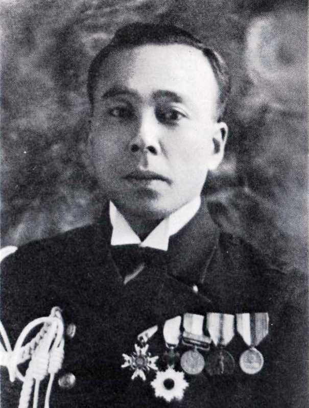 Minato Keijō is an Imperial Japanese Navy Rear Admiral